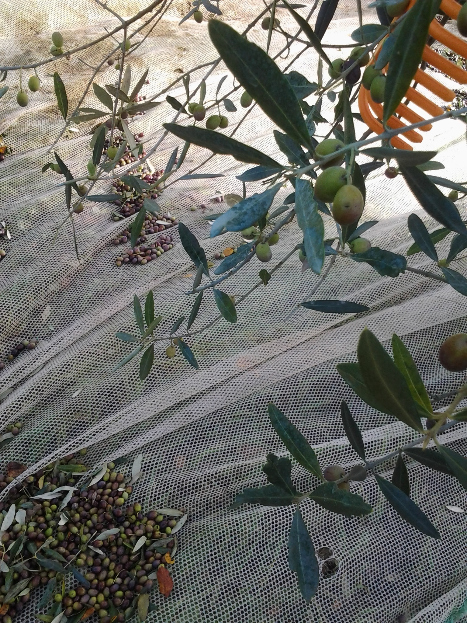 Tool used to take olives off a tree